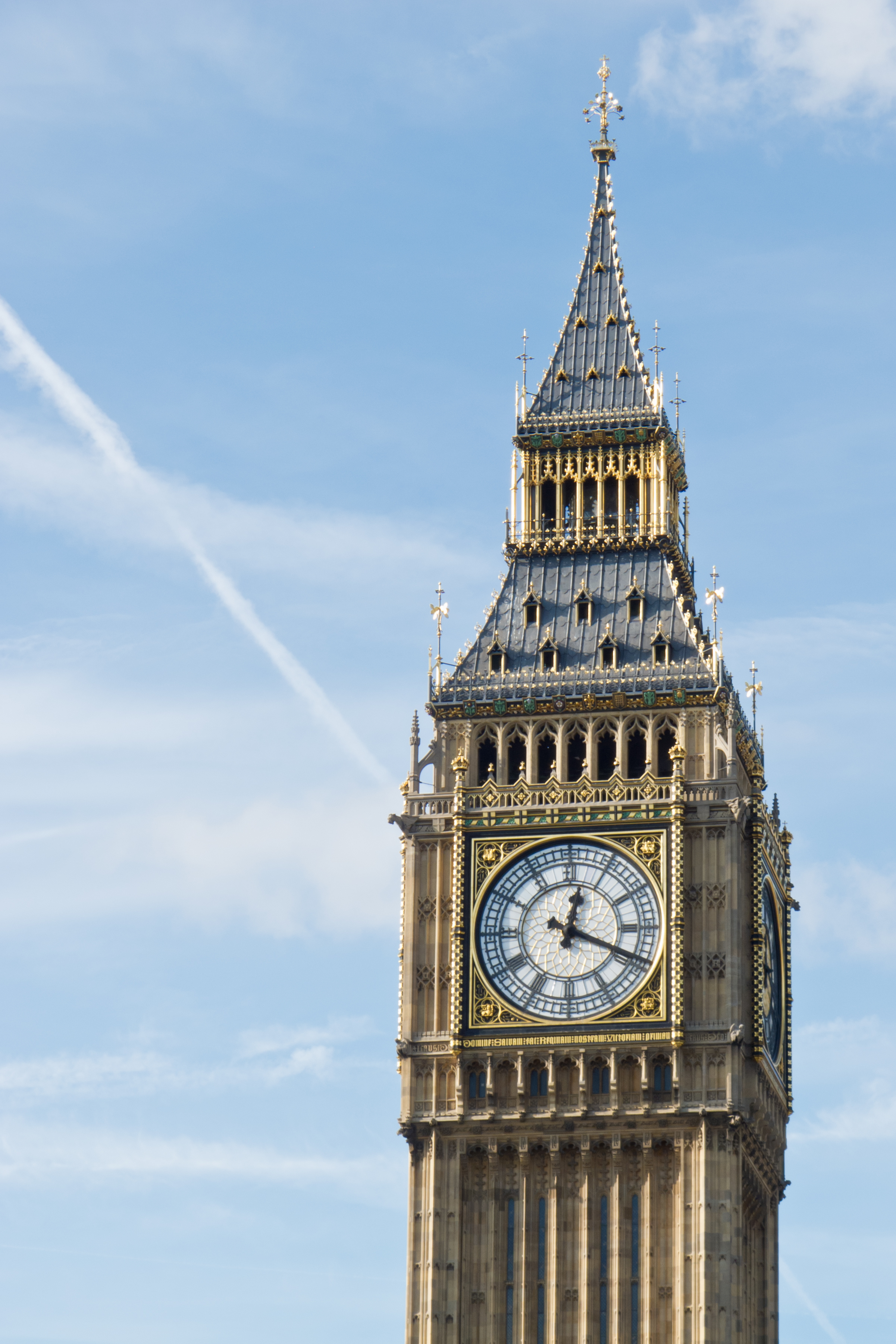 Detail of the Clock Tower (usually referred to as Big Ben) of the Palace of Westminster, London, England, United Kingdom.